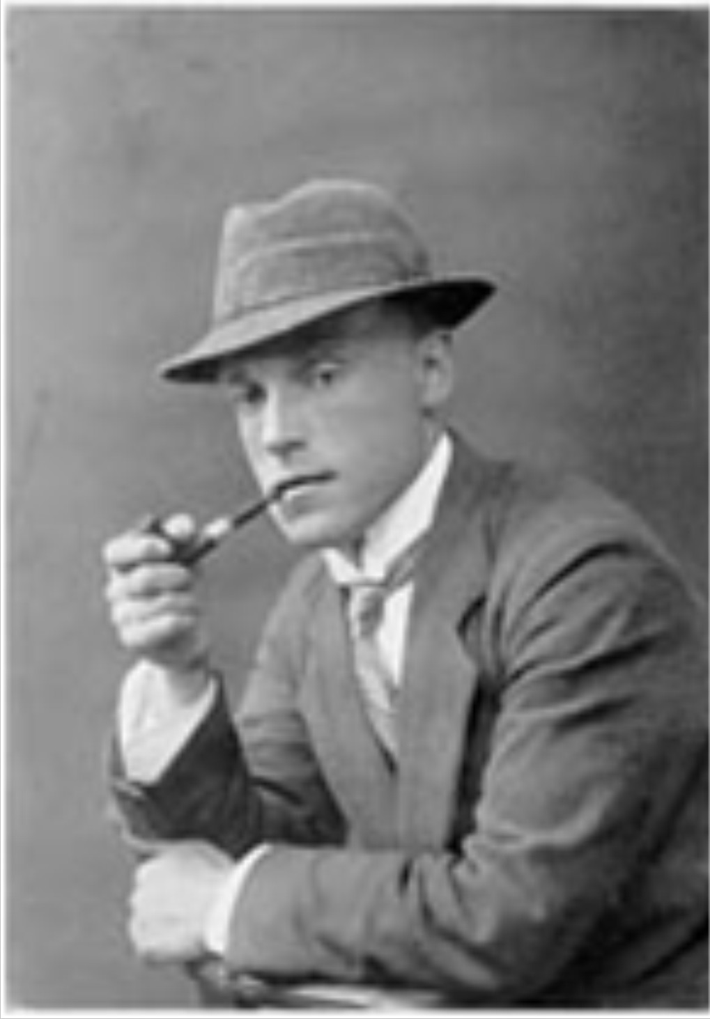 photo